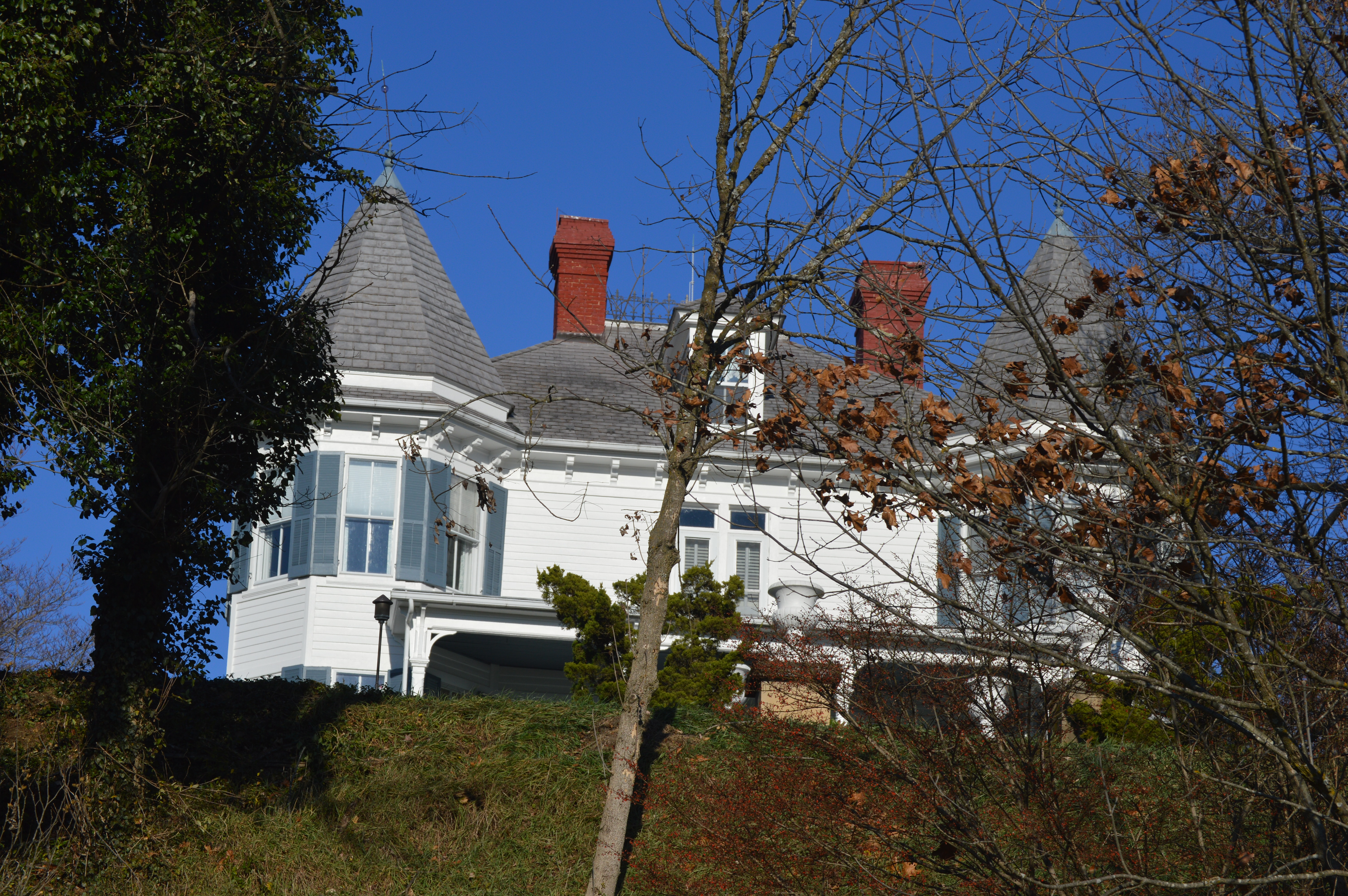 Through-the-trees view of the Campbell Farmhouse, located on Stoney Creek Road northwest of Edinburg in Shenandoah County, Virginia, United States. Built in 1889, it is listed on the National Register of Historic Places.